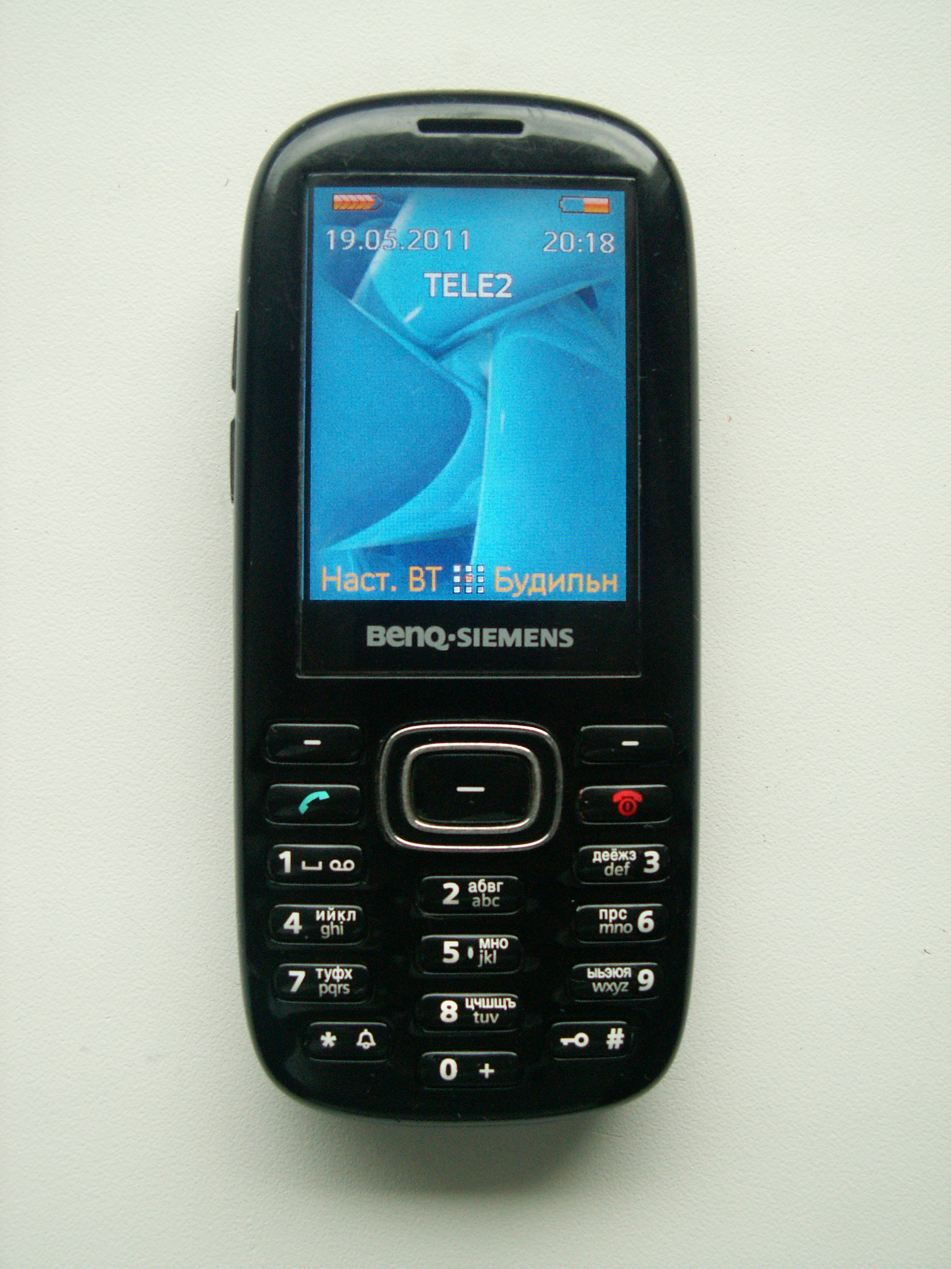 Benq-Siemens E71 Onyx Black, made by me with Conica-Minolta Dimage Z5